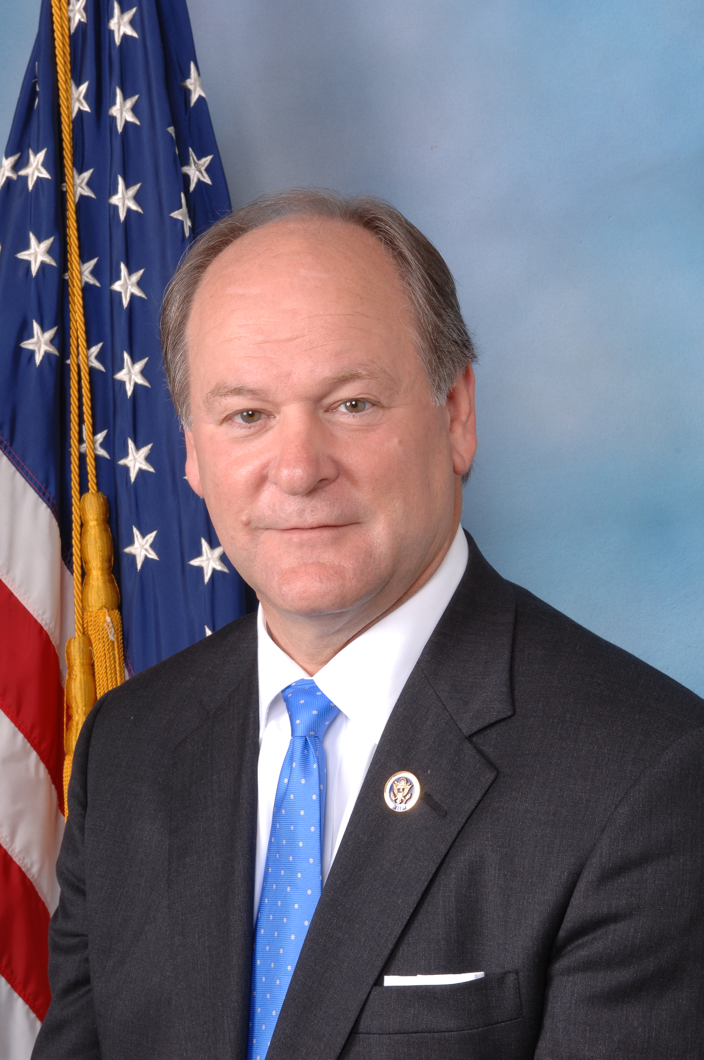 Official photo of Congressman Bobby Bright (D-AL).